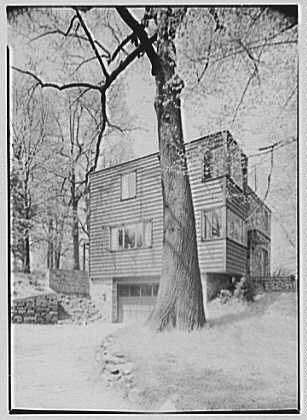 Photograph of Jesse Osler House, Elkins Park, Pennsylvania (built 1940), Louis I. Kahn, architect.